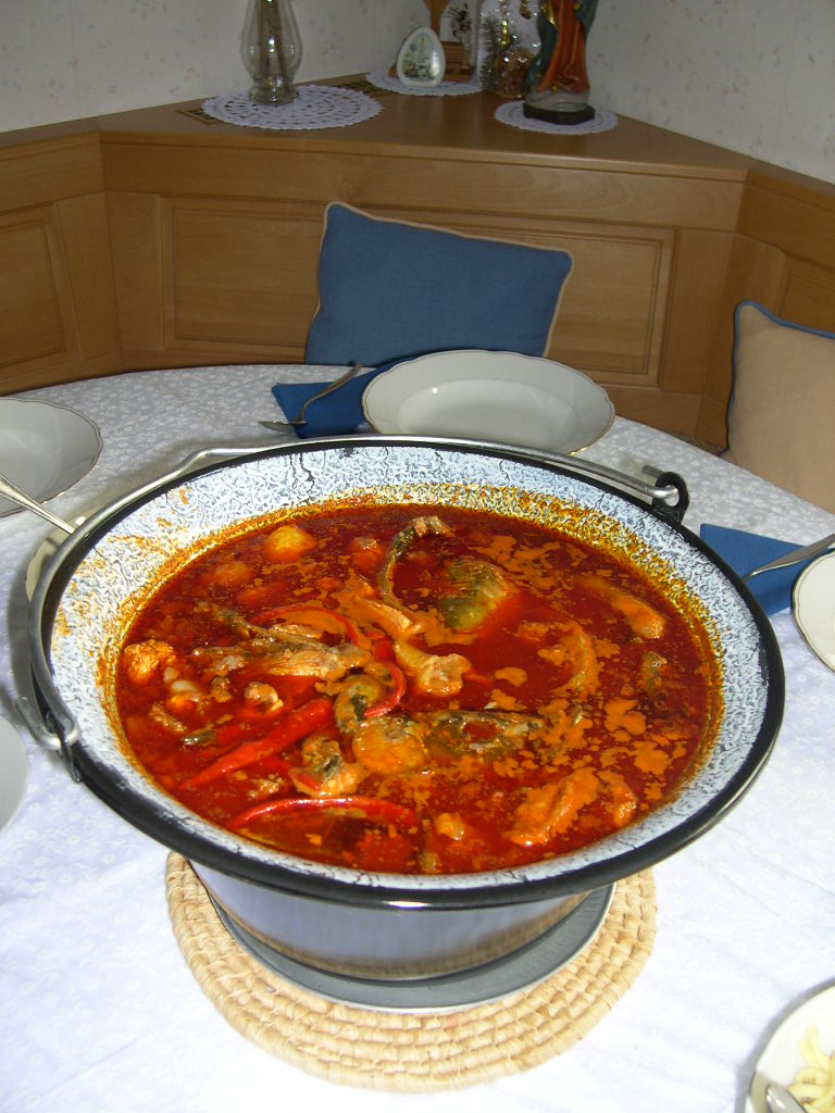 Ceramic-lined pot of Hungarian Fisherman's Soup (Halászlé, or Karpfensuppe) ready to serve